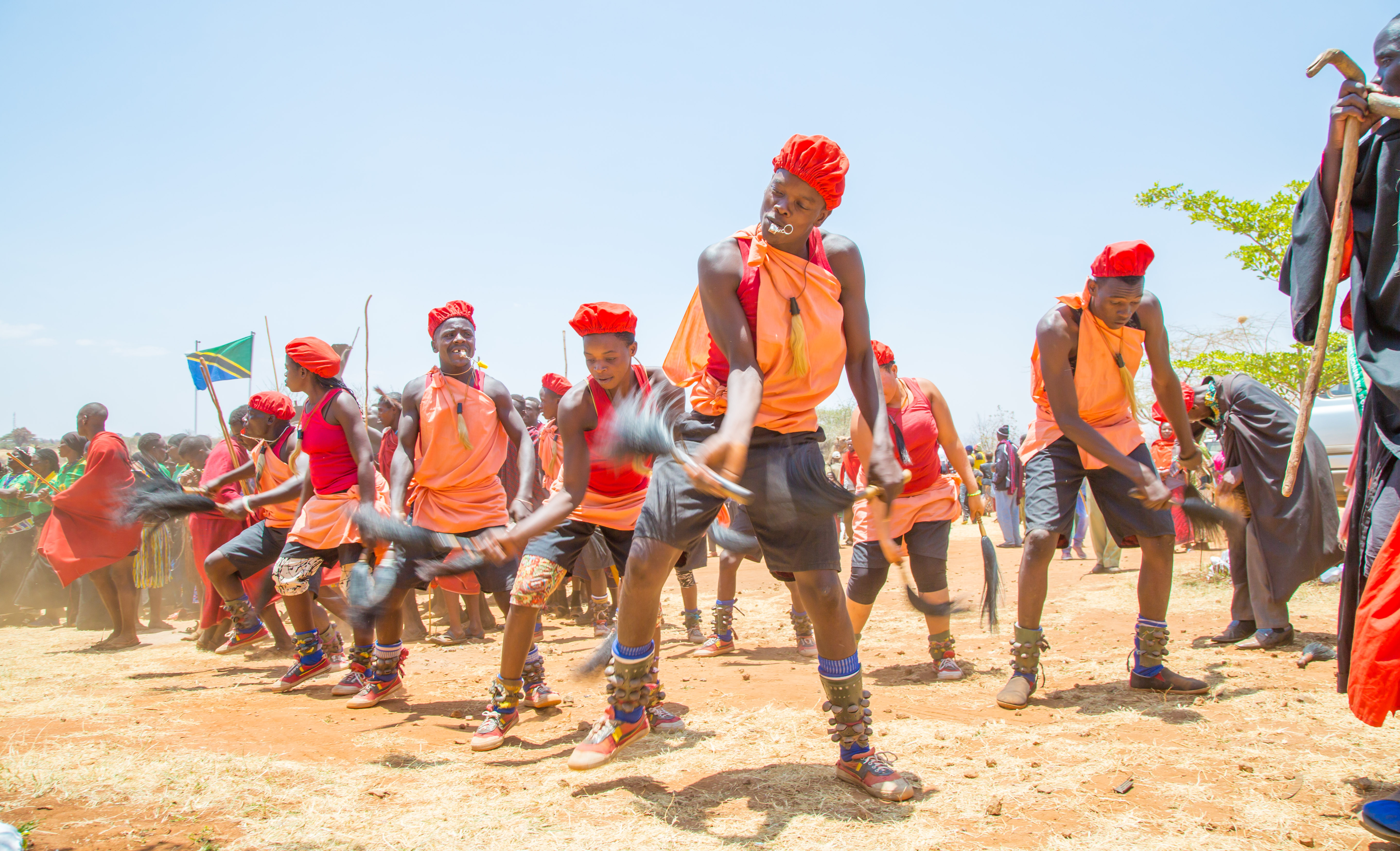 This is an image from Tanzania